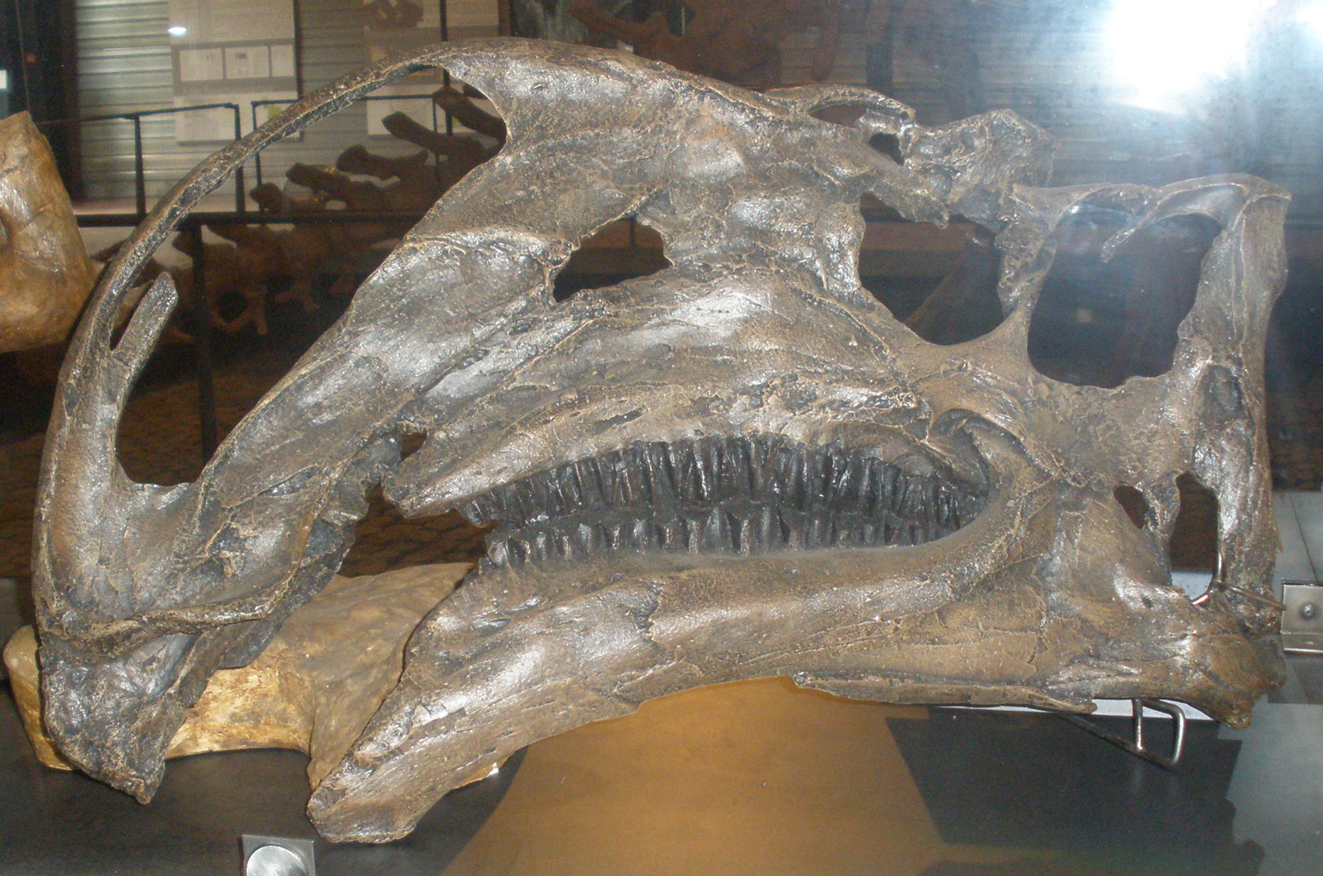 skull of iguanodontian Altirhinus kurzanovi